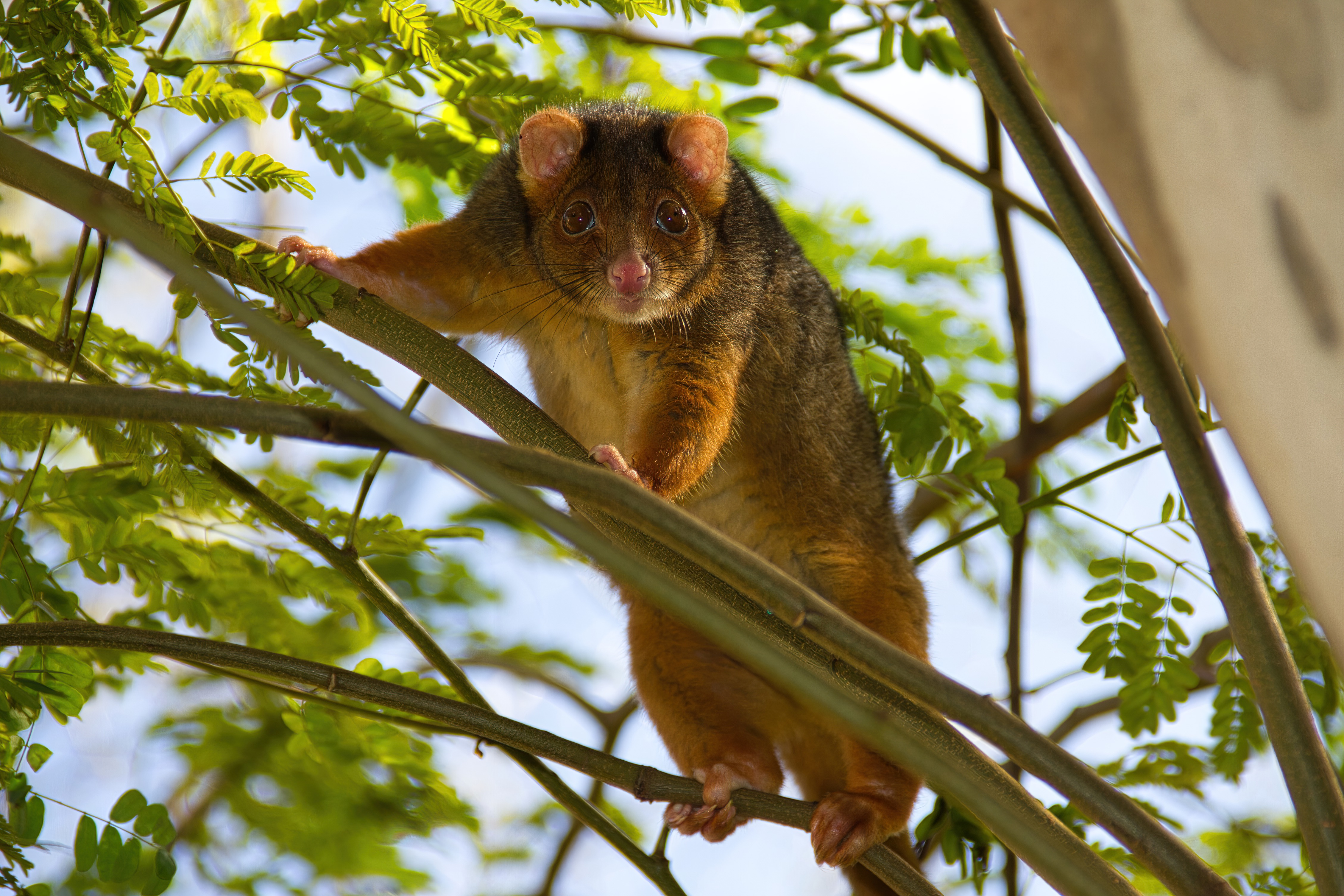 Common ringtail possum (Pseudocheirus peregrinus) in a Brisbane park. IMG04429